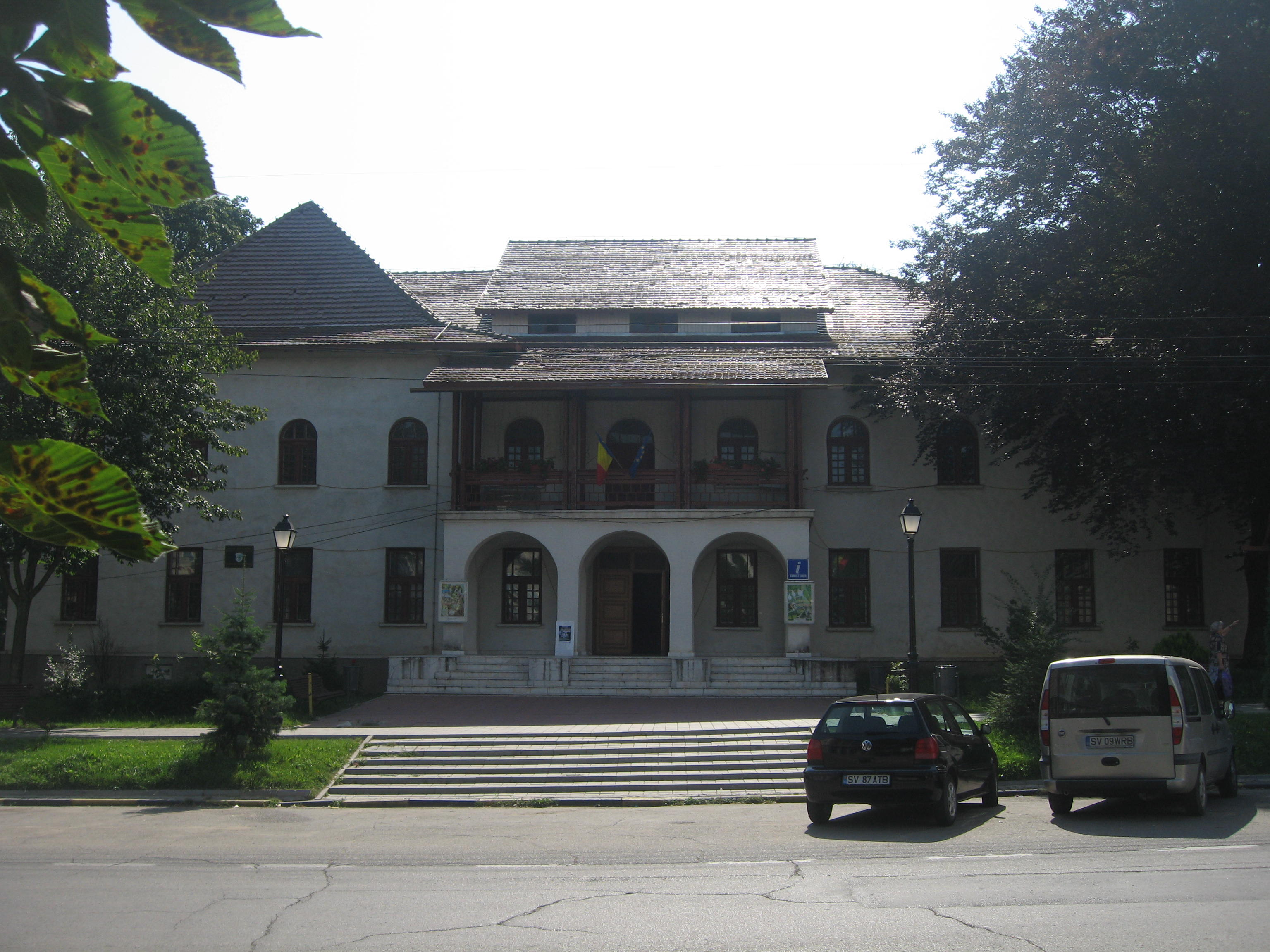 The Natural Sciences Museum in Suceava.